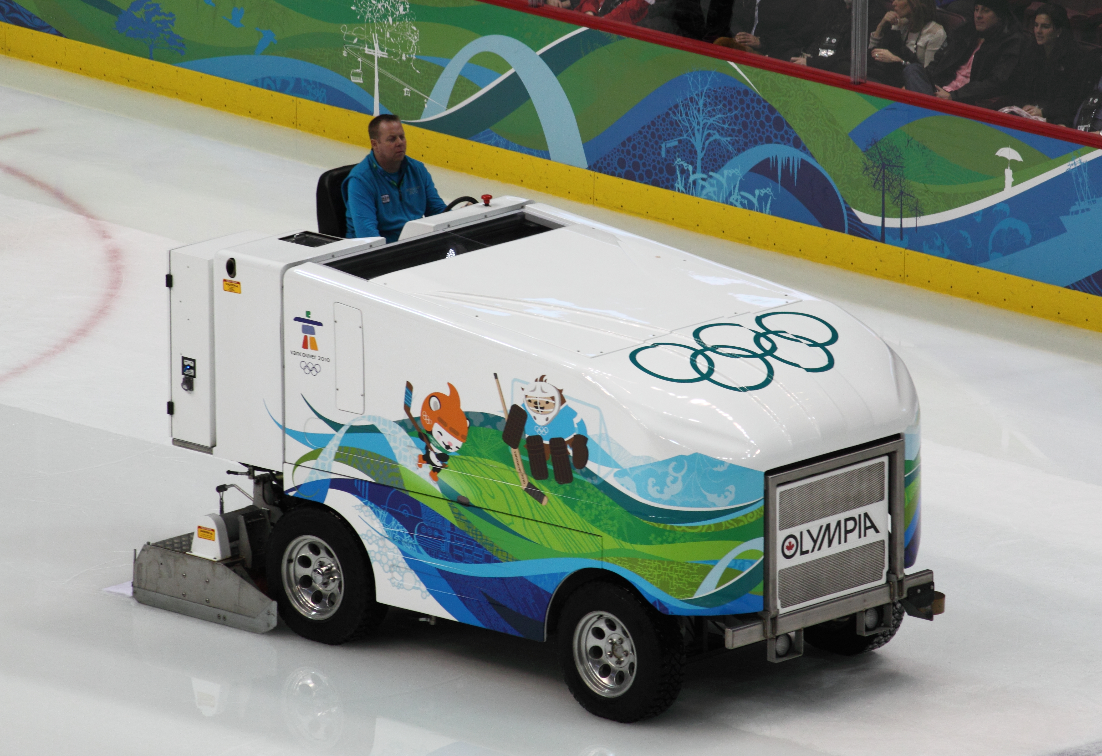 2010 Vancouver Olympic Games - Men's Hockey @ Canada Hockey Place (GM Place)